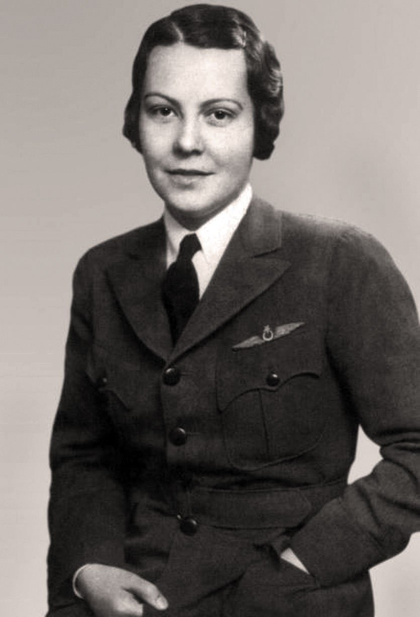 An photo of Sabiha Gokcen, first Turkish female aviator, date 1930s